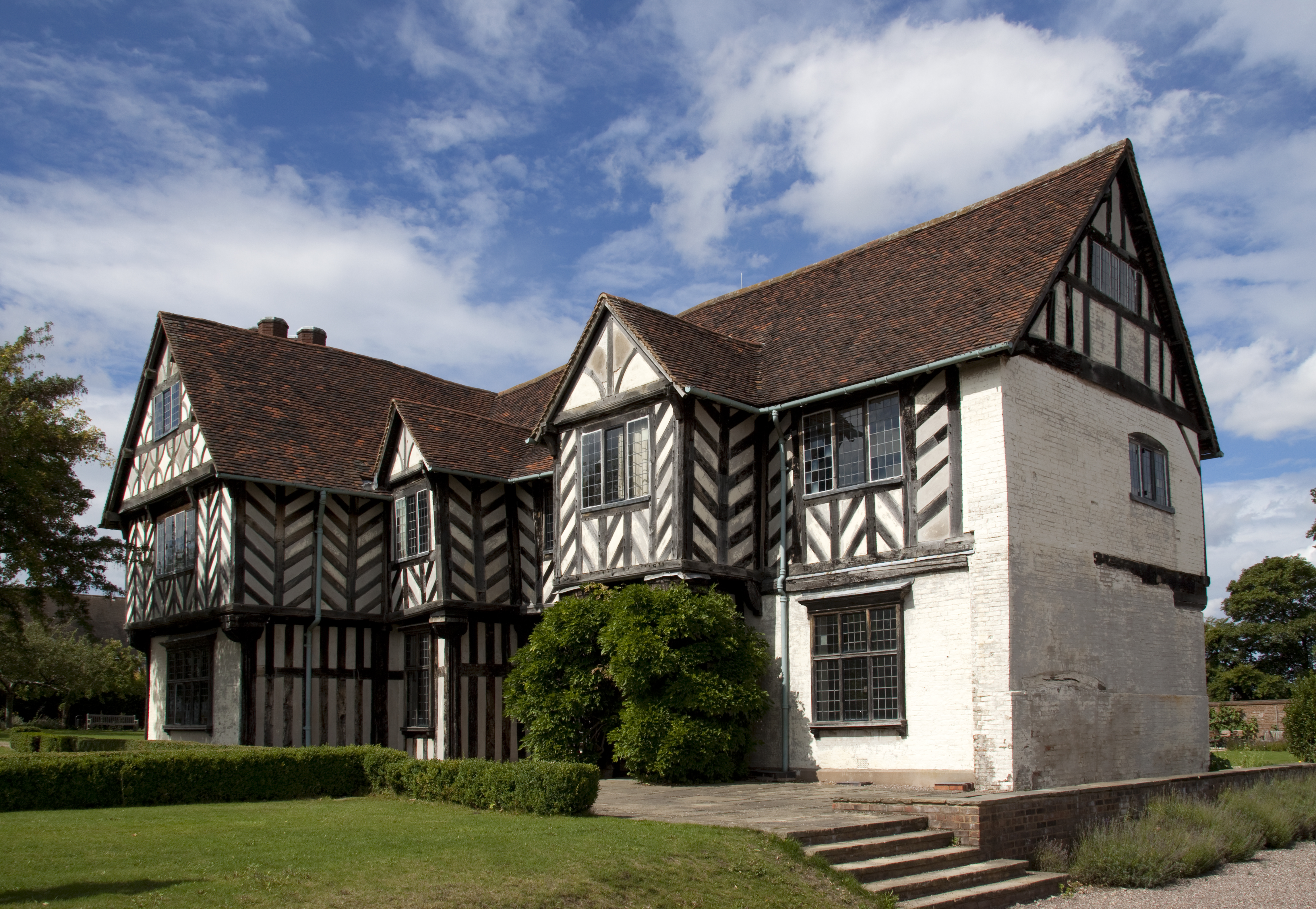 Blakesley Hall, Yardley, Birmingham: a timber-framed farmhouse built in 1590 for Richard Smalbroke